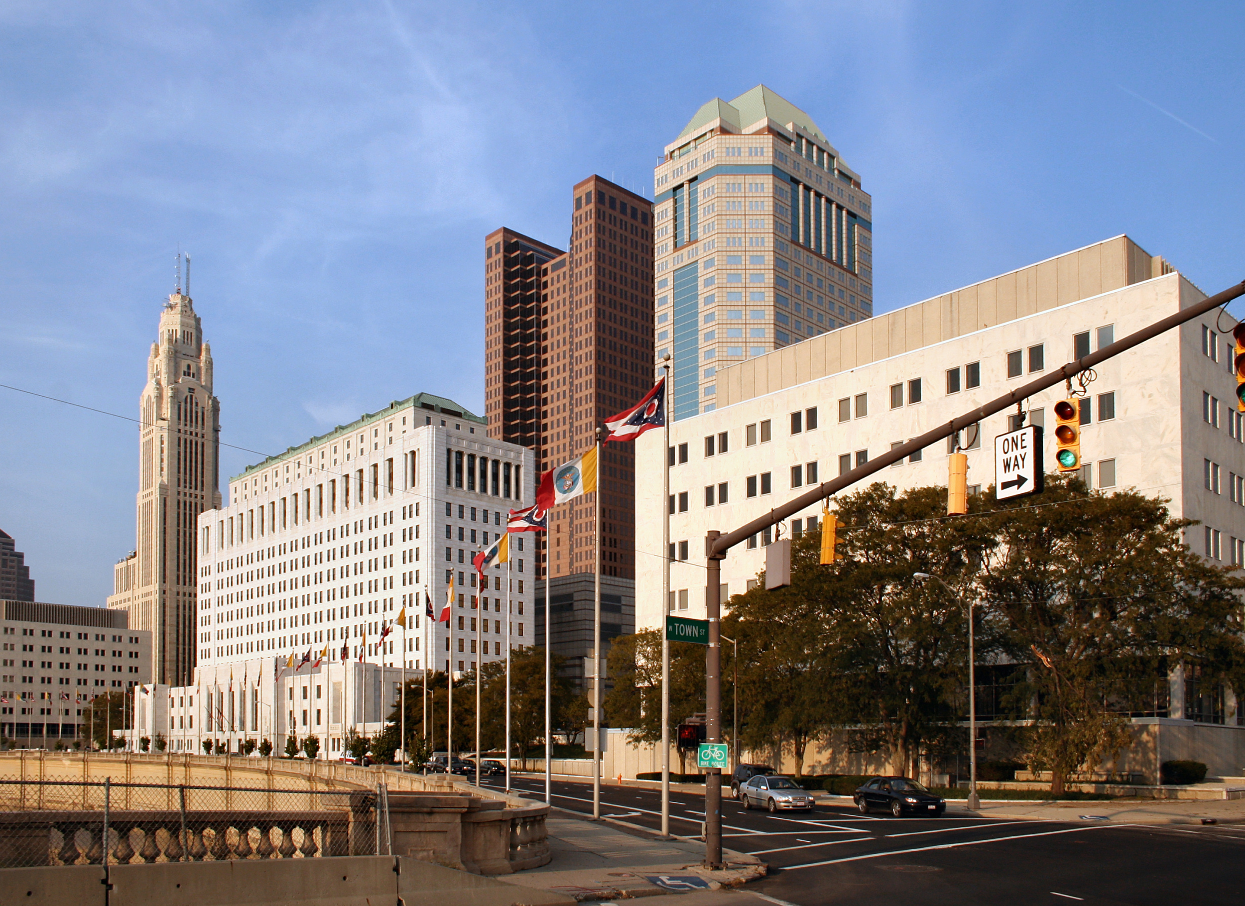 Skyline of Columbus, Ohio. Photo shot by Derek Jensen (Tysto), 2005-October-03